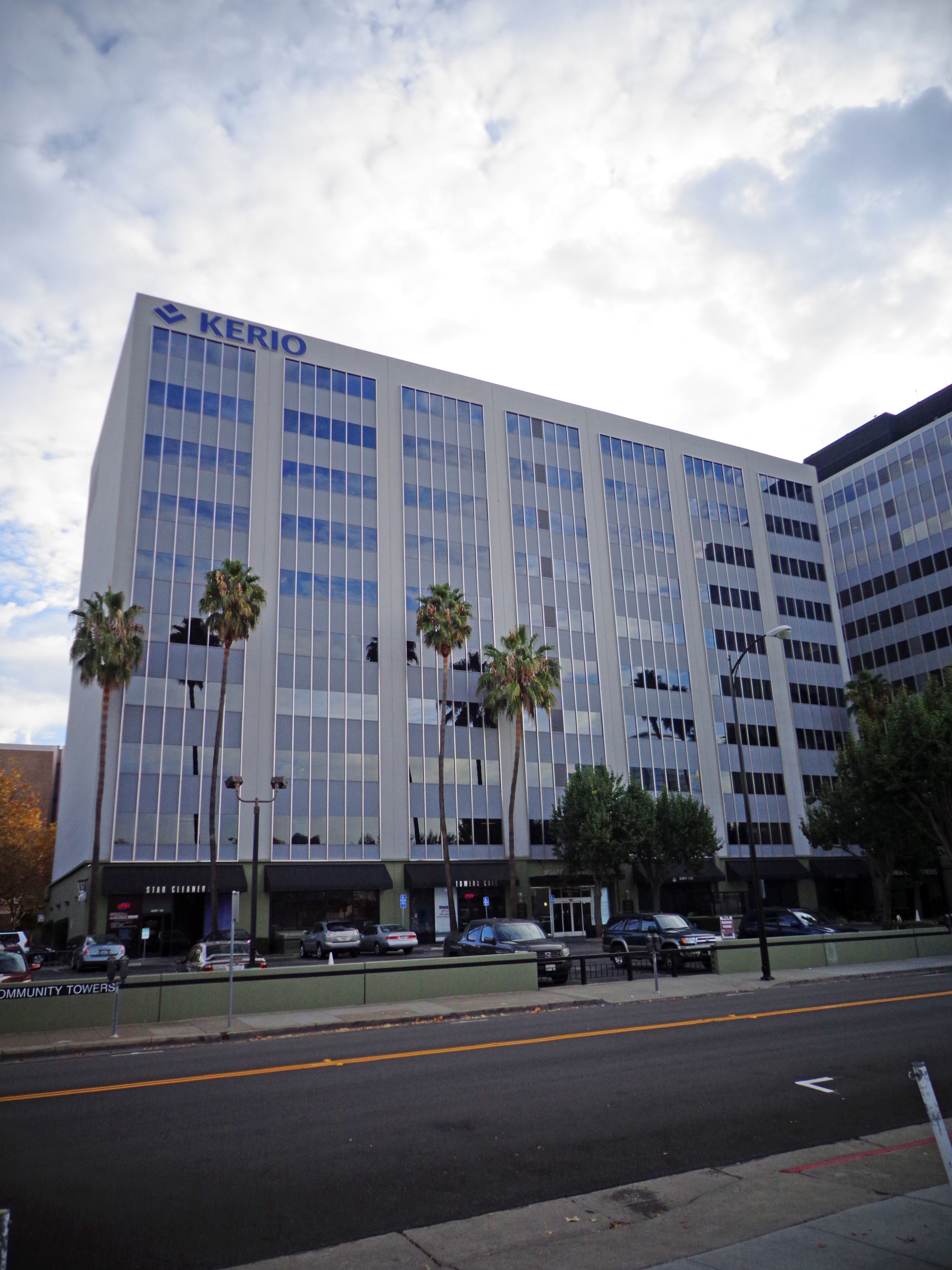 Picture taken from the Kerio Technologies headquarter in San Jose, CA.